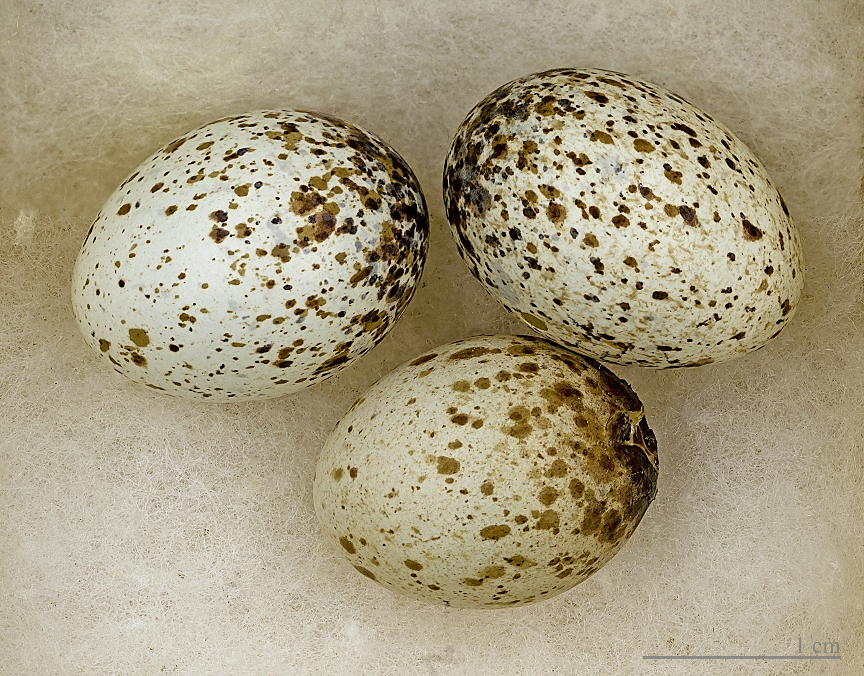 Egg of Sardinian Warbler. Collection of Jacques Perrin de Brichambaut.